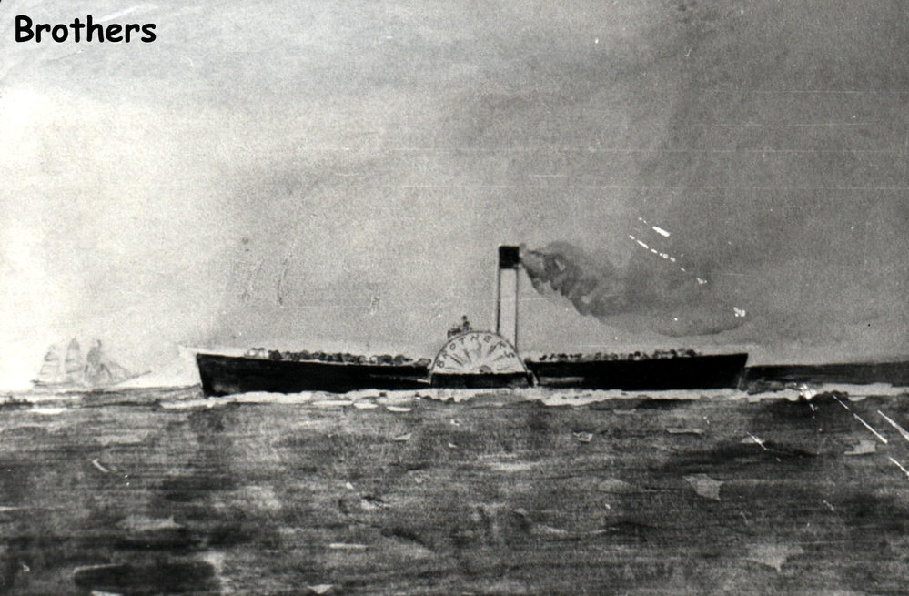 Painting of Sydney paddle steamer ferry BROTHERS (1847-1890)Graeme Andrews, Ferry BROTHERS PS.(1847-1890) painting, anon. (01/01/1870 - 31/12/1879), [A-00079505]. City of Sydney Archives, accessed 08 May 2020